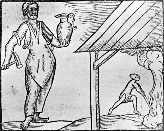 "Officina ferraria abo huta i warstat z kuźniami szlachetnego dzieła żelaznego przez Walentego Roździeńskiego teraz nowo wydana", Kraków 1612, S. Kempini